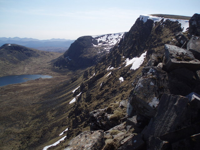 Ben Alder Cliffs The cliffs of Garbh-coire Beag on Ben Alder.